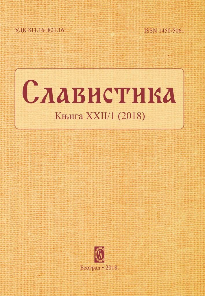 Cover of Serbian scientific journal Slavistika, 2018.